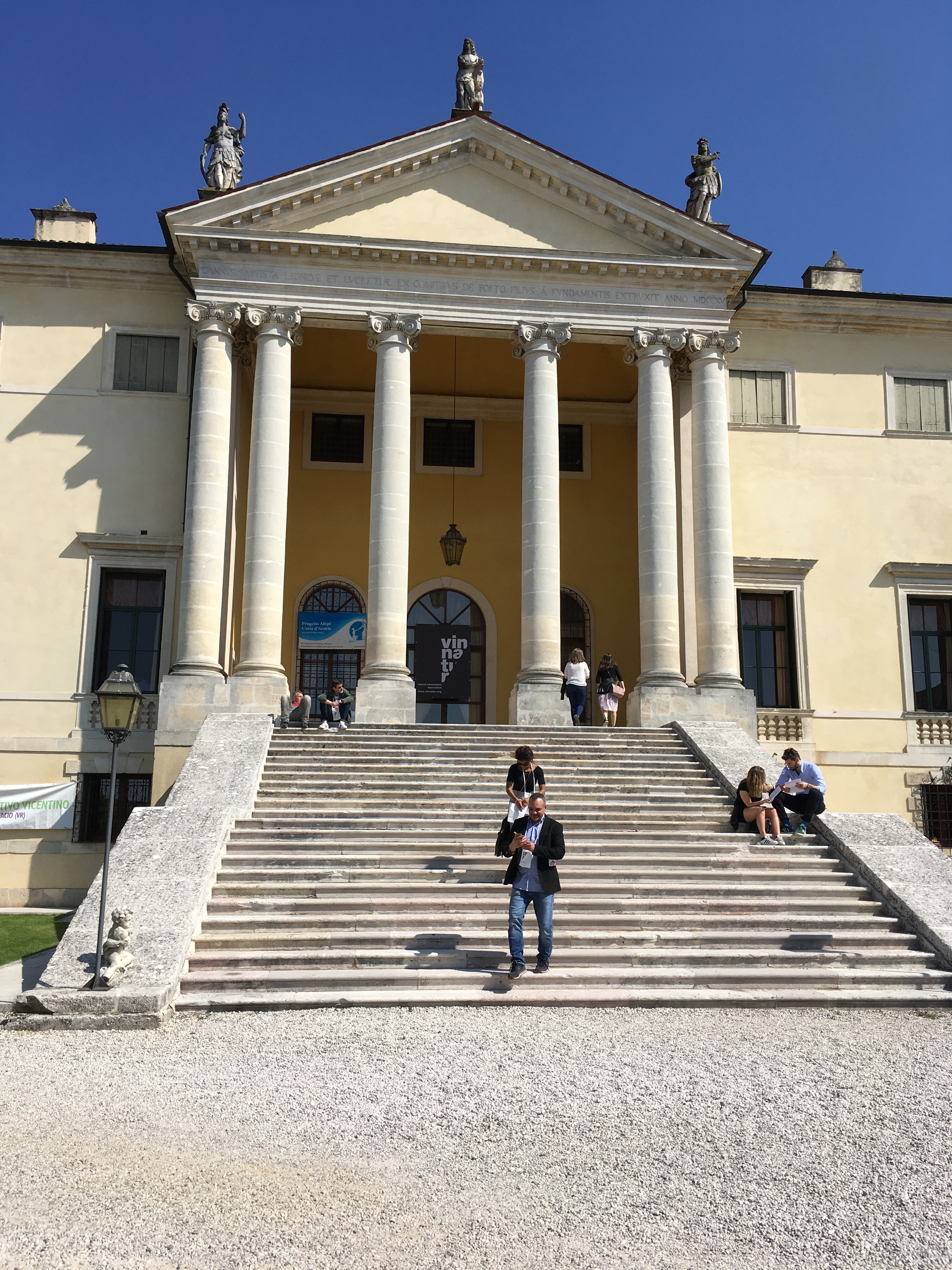 Villa da Porto called "La Favorita" in Monticello di Fara, Sarego, Vicenza.